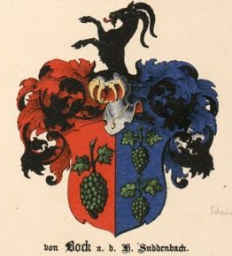 Coat of arms of Bock (of Suddenbach) family.